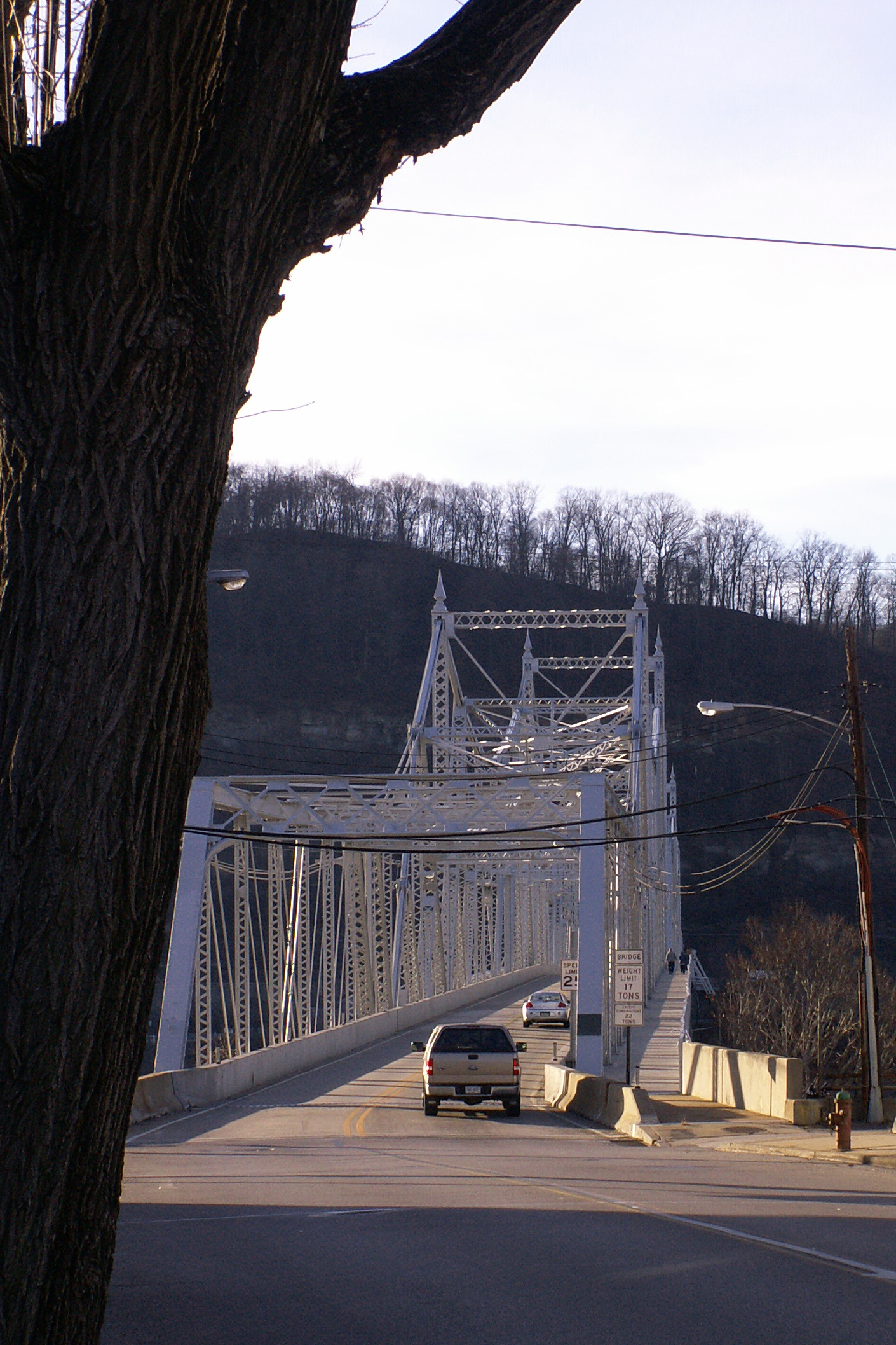 The Ambridge-Aliquippa Bridge, seen from the Ambridge side